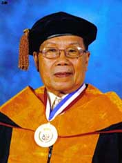 Profile of National Scientist Gavino Trono